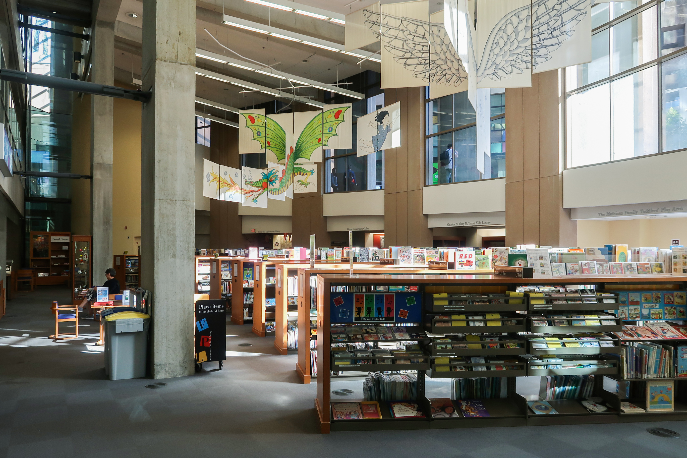 Vancouver Public Library Level 1 Children Library